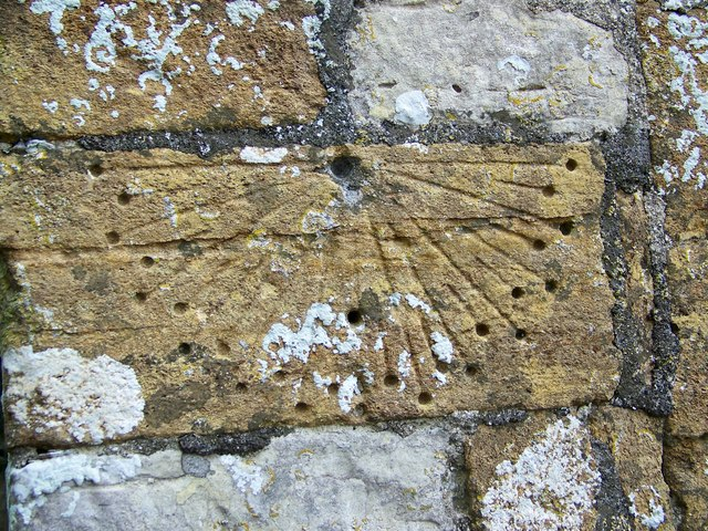 Scratch dial, St Martin's Church. Scratch dials first appeared with the expansion of church building after the Normans arrived. They began to fall out of use when prominently designed sundials were set up from the sixteenth century.